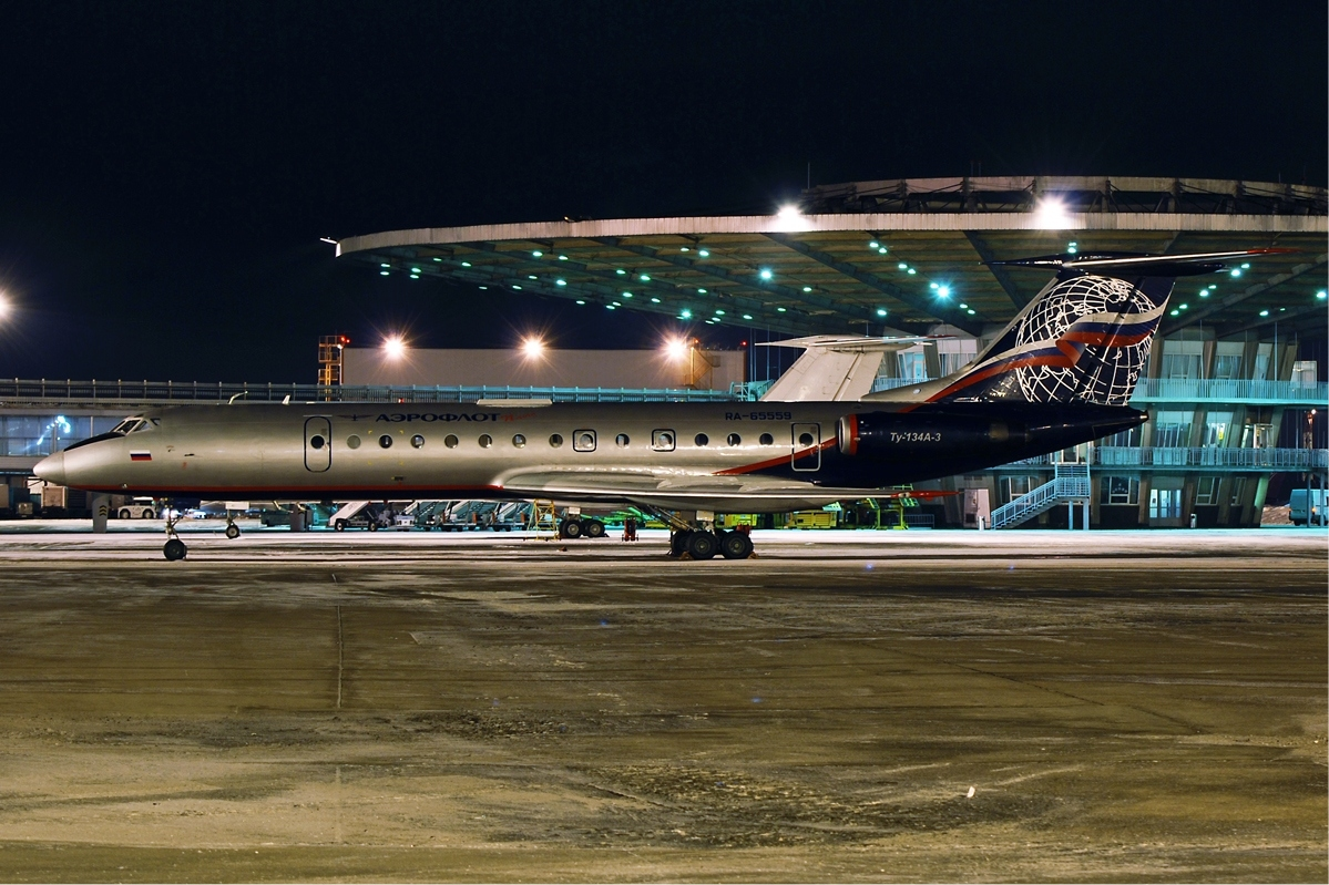 Aeroflot-Plus Tupolev Tu-134 at SVO at night